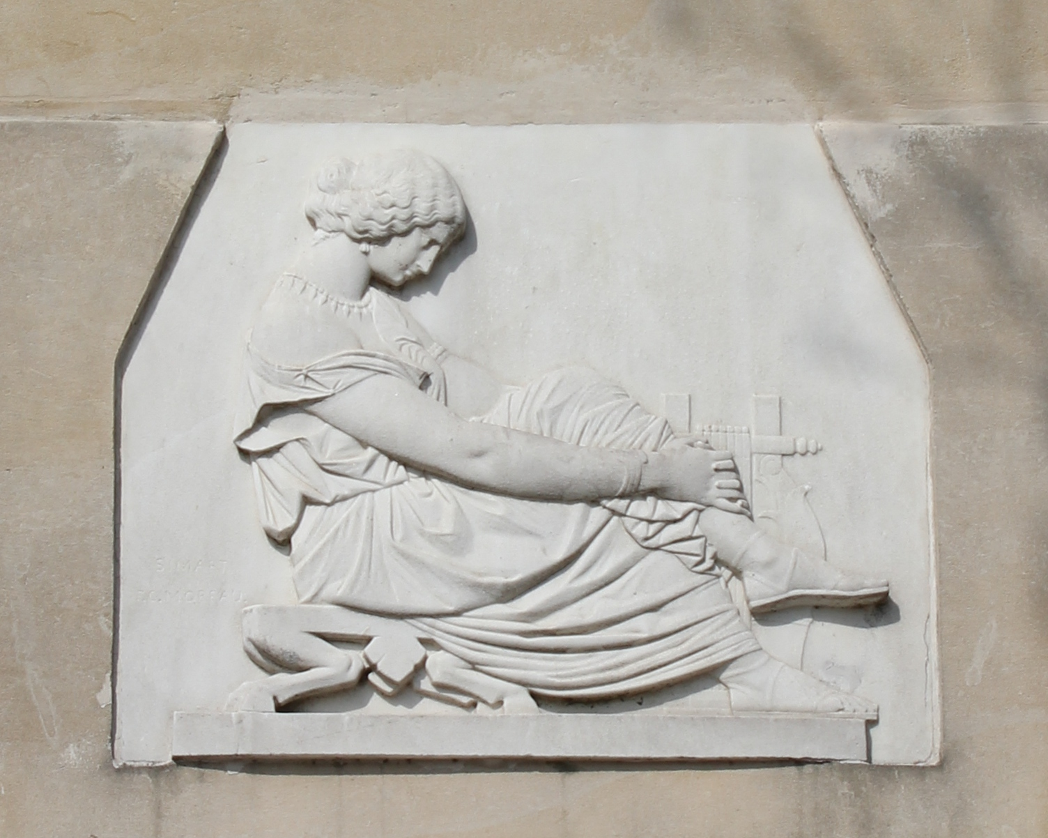 James Pradier's tombstone in Père Lachaise Cemetery, in Paris.